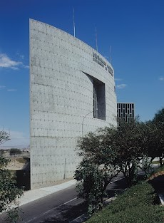 Library at Universidad de Tarapacá, Arica. Project supported by the MECESUP Program